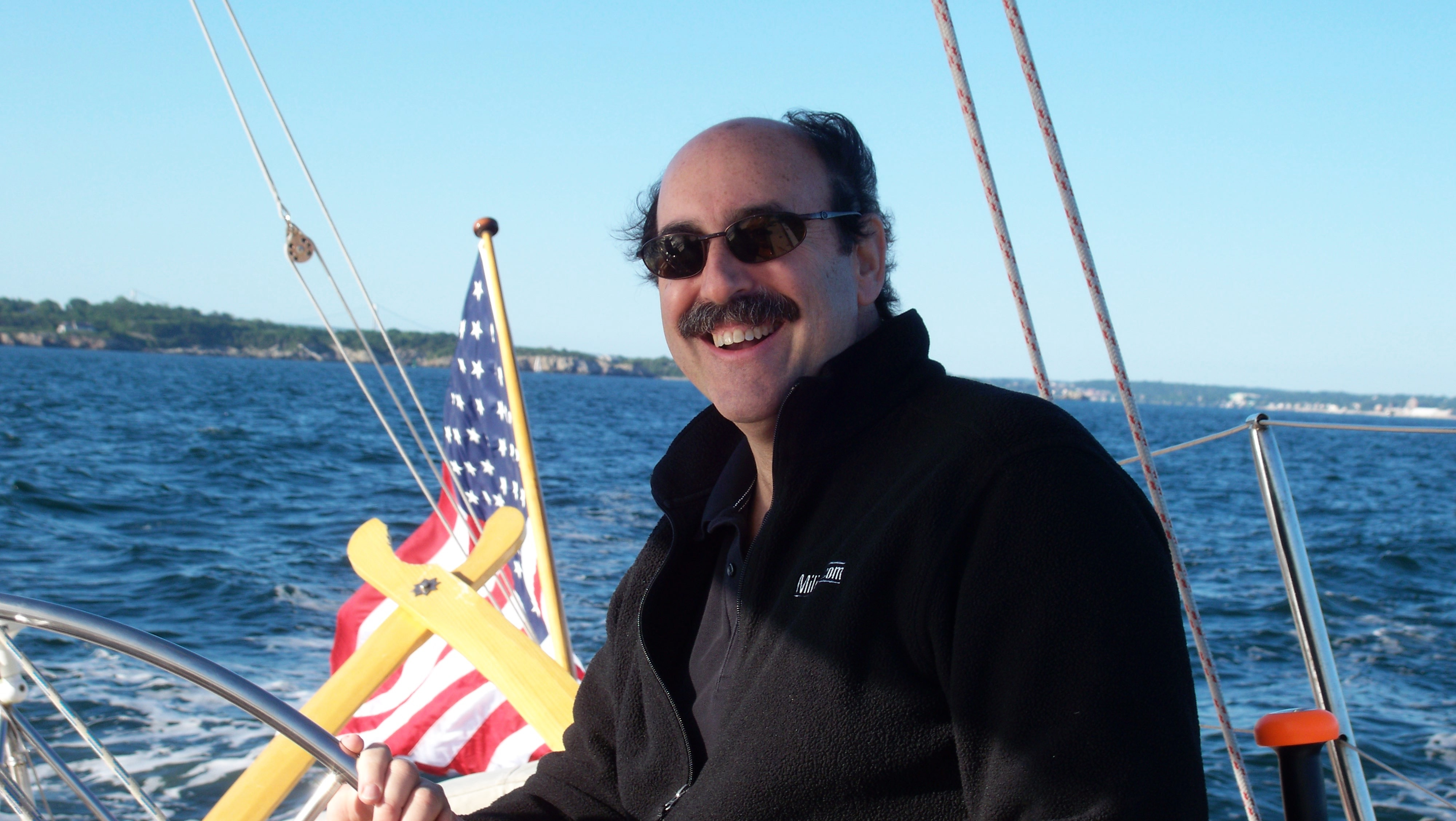 Steve Cohen at the Helm of Weatherly.